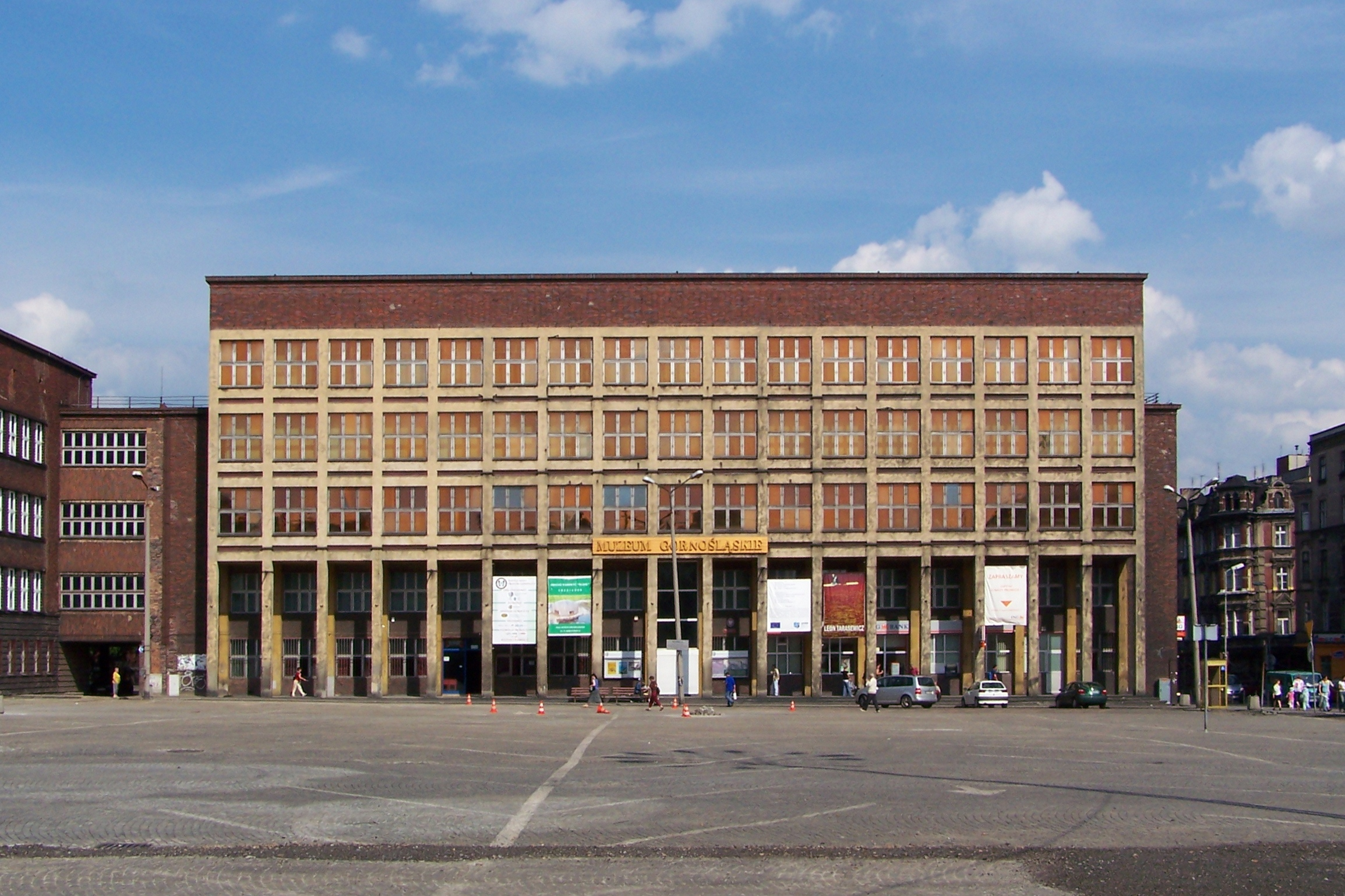 Upper Silesian Museum in Bytom.